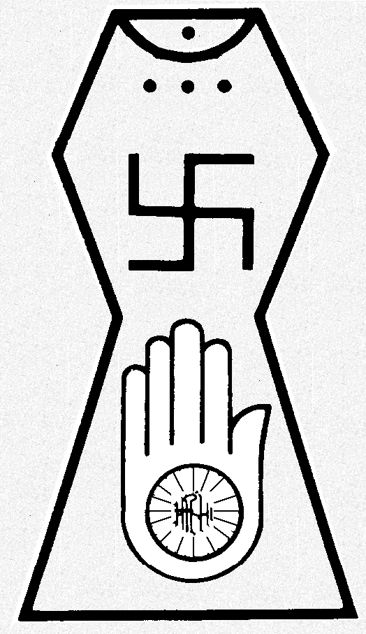 Trilok naksha